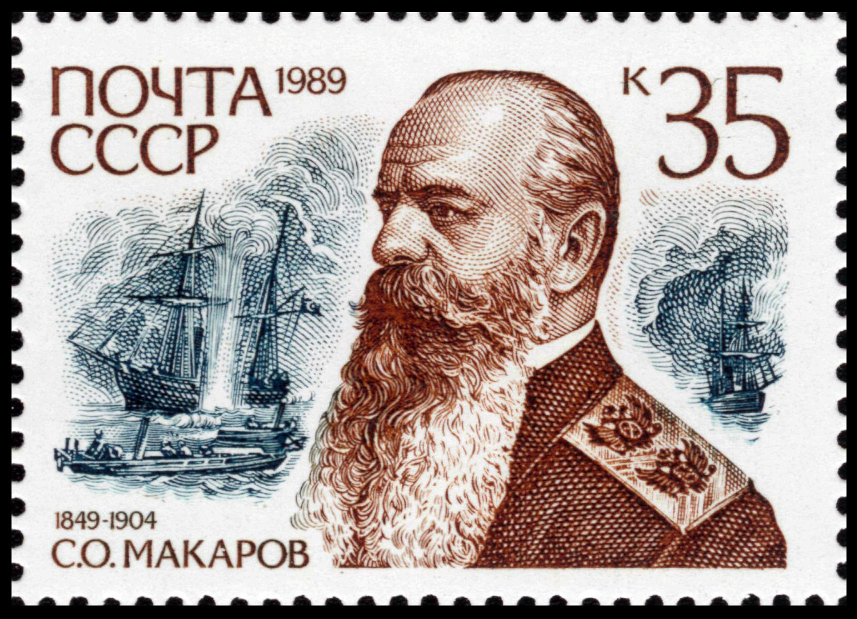 Russian Admirals. Makarov. USSR stamp from a stamp sheet of 6 USSR stamps, Russian Admirals, 1989.